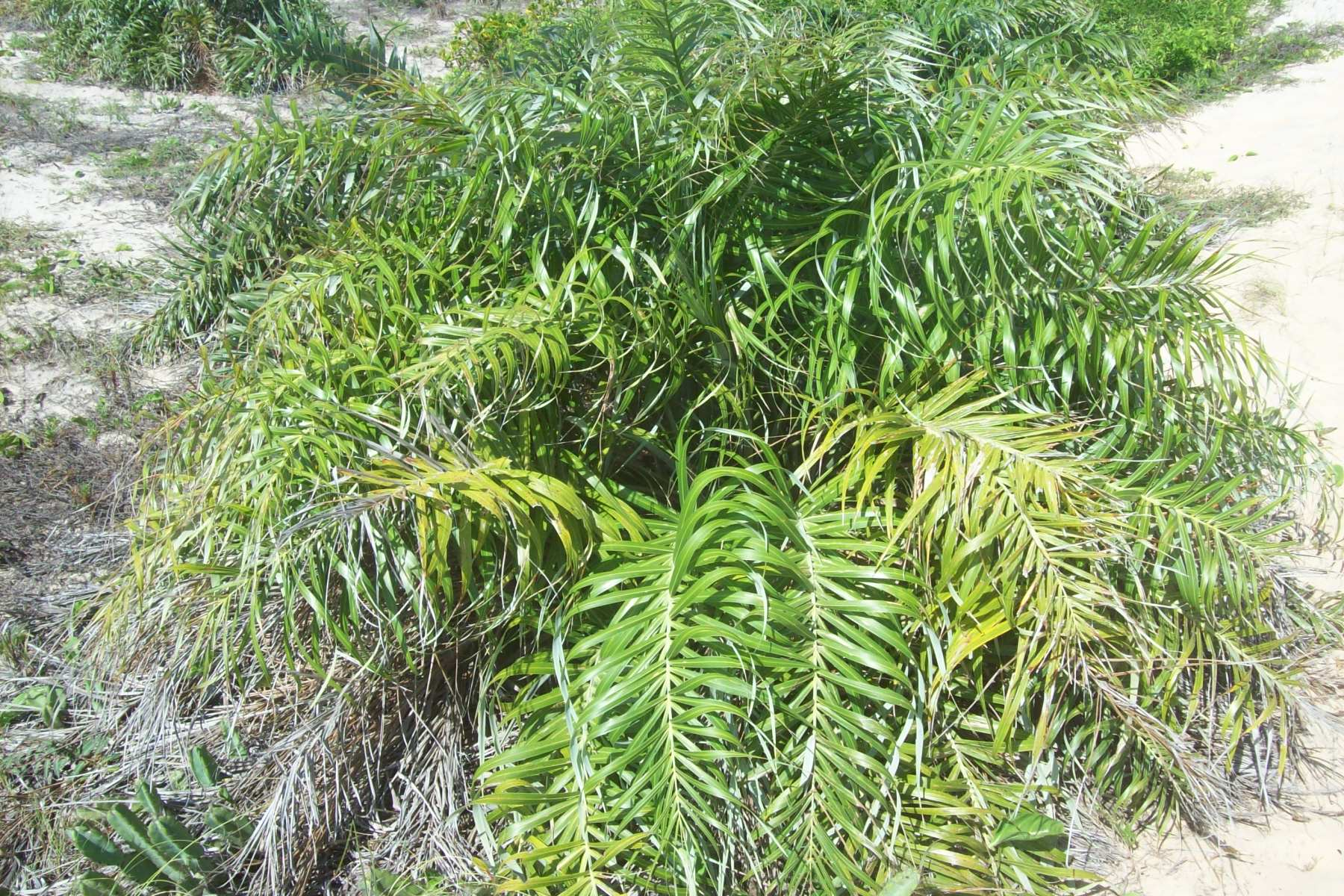 Allagoptera Arenaria in Guriri Beach, Brazil